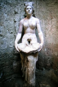 The nymphe's statue which became a symbol of Allianoi rescue campaign.